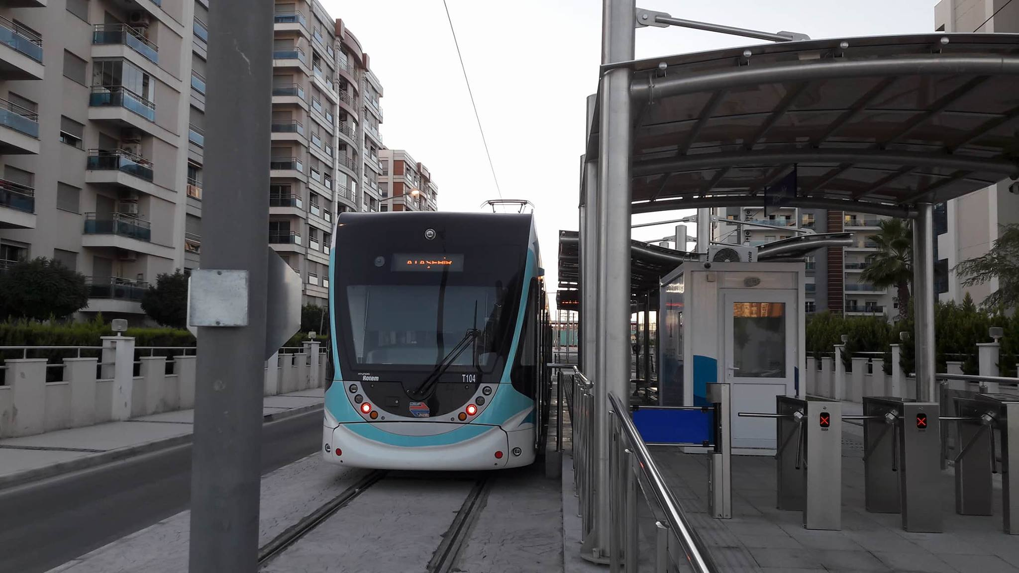 Atasehir tram station.